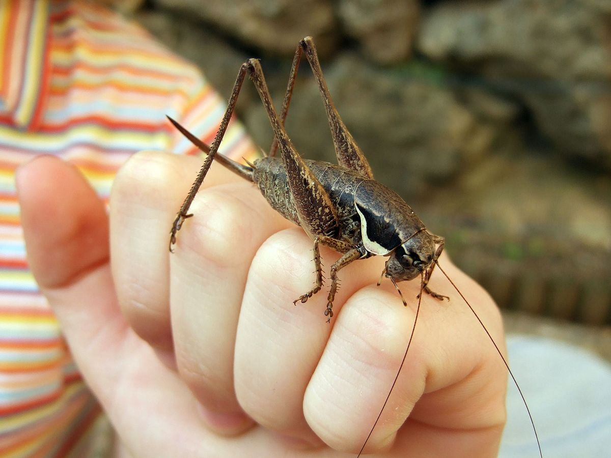 Pholidoptera fallax, female. - France, Cote d'Azur, Cogolin.